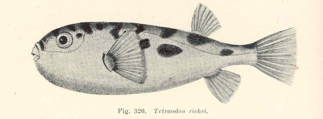 Tetraodon richei Subject: Tetraodon, Puffers (Fish) Tag: Fish